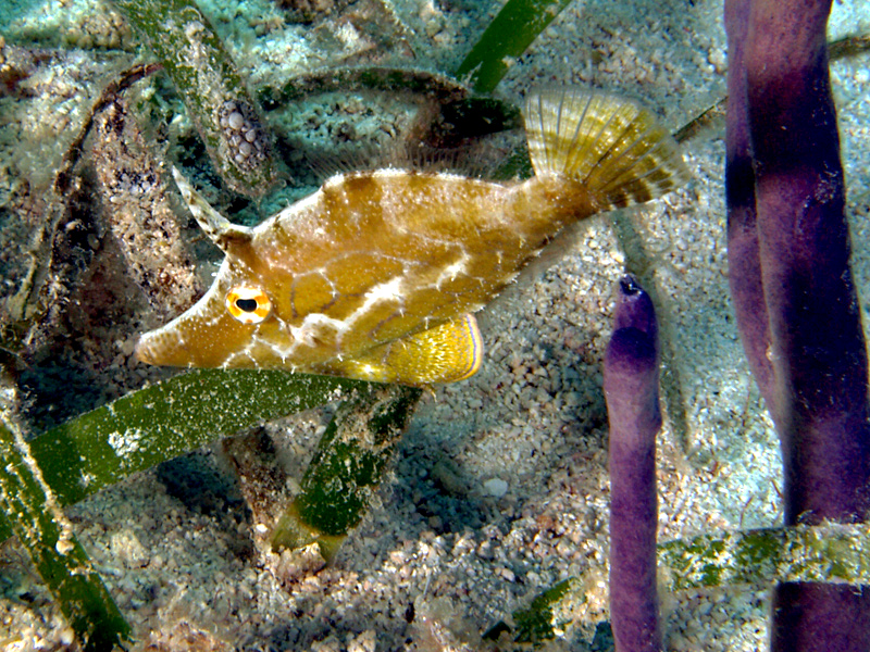 Monacanthus tuckeri (Slender filefish) Haiti